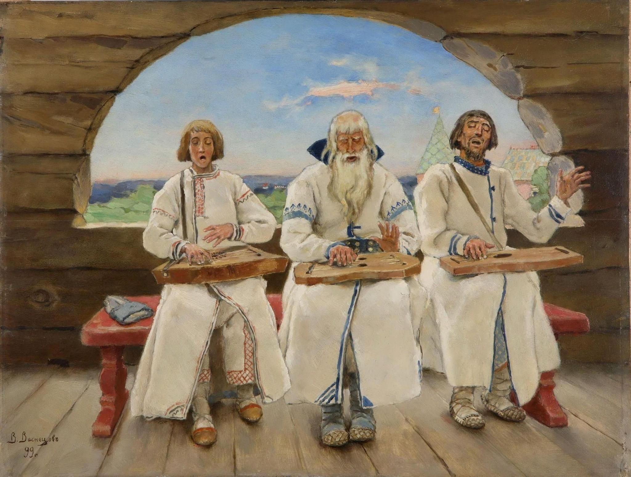 Guslars